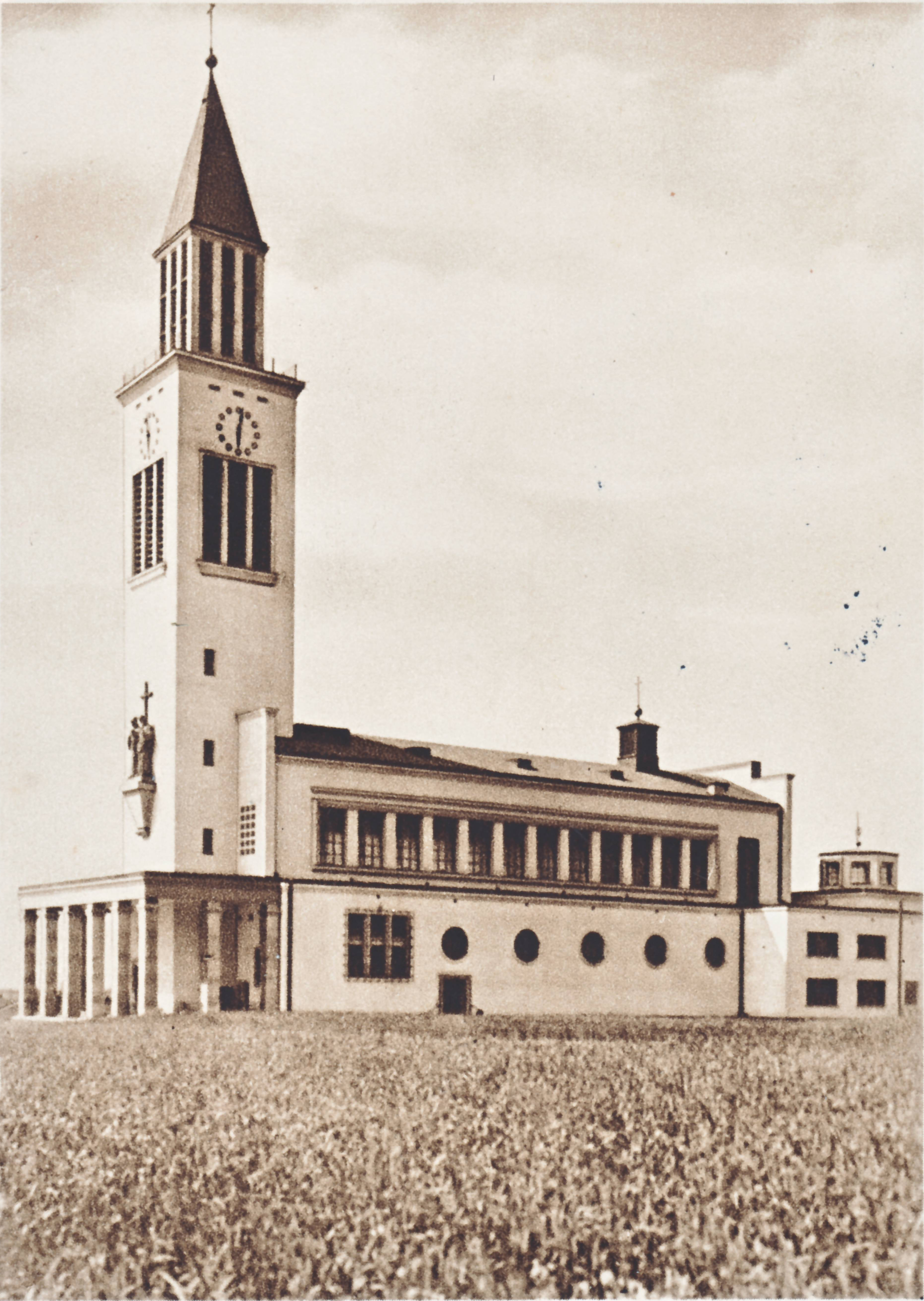 A historical postcard with the Church of Saints Cyril and Methodius in Olomouc. English translation of the Czech caption: Ten-year jubilee of the archiepiscopal office of J. E. Dr. L. Prečan. Church of St. Cyril and Methodius in Hejčín. Published by MCM with the care of Stoj. liter. jednota boh. olom.